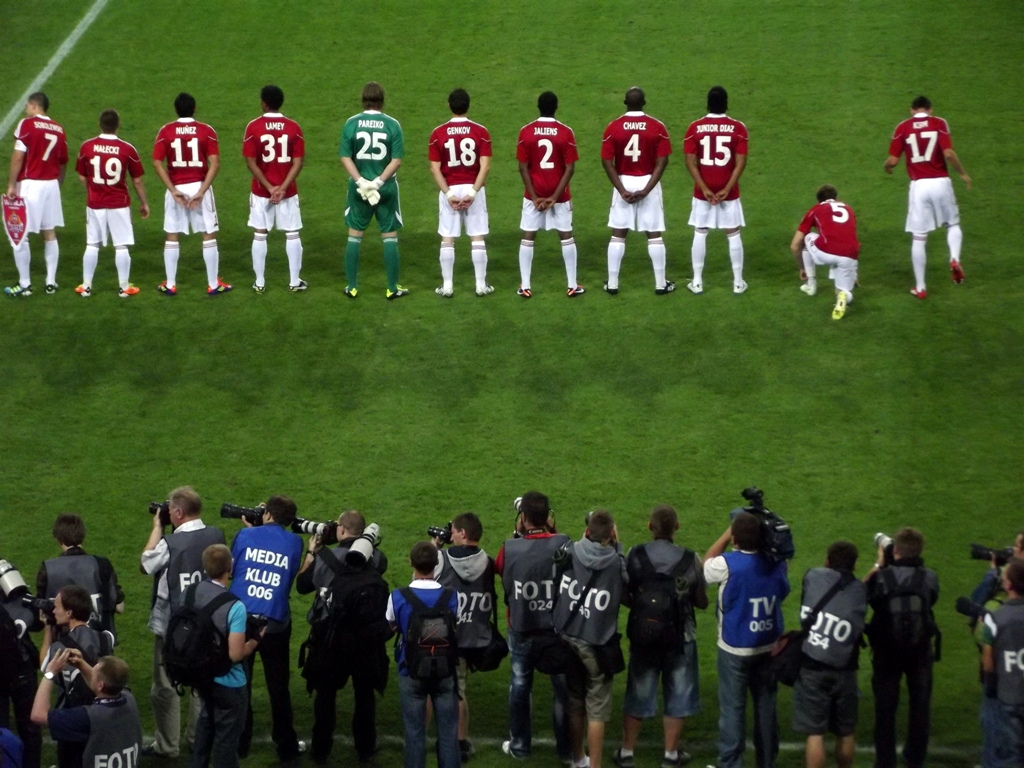 Wisła Krakow's team against Litex Lovech (Champion's League).